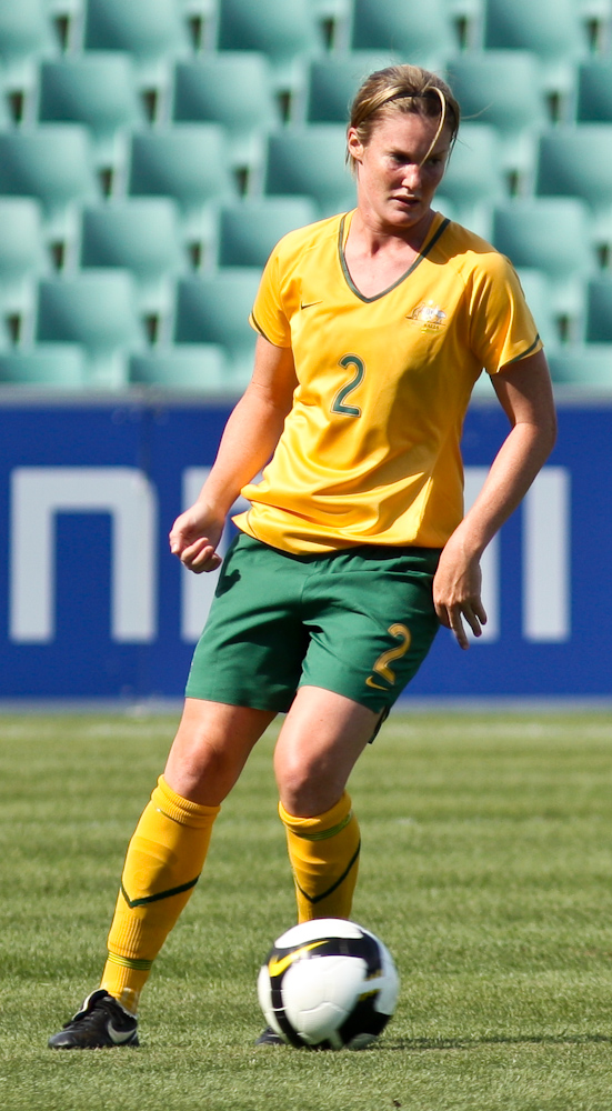 Kate McShea playing for the Australian Women's Football Team against Italy in a friendly international.